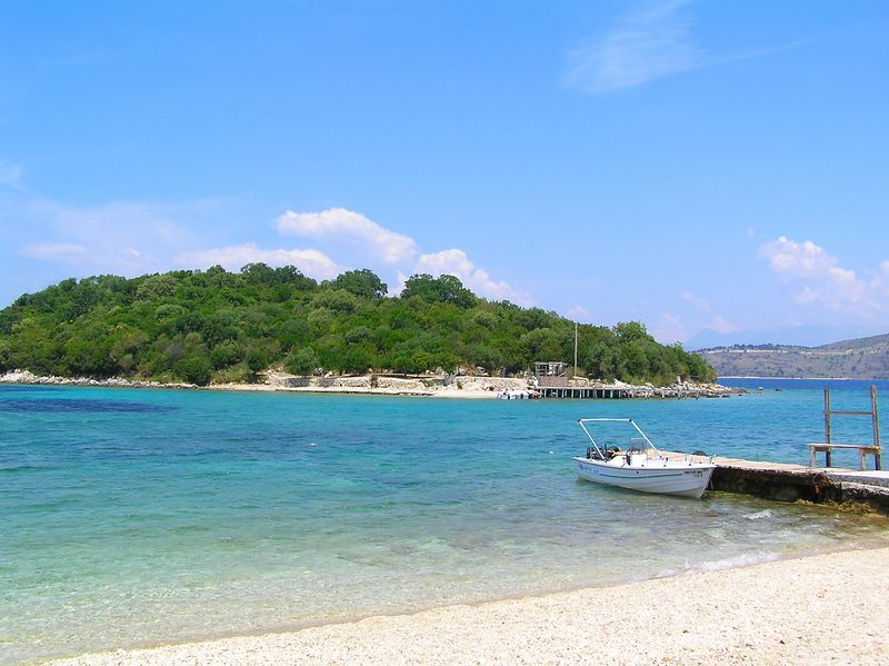 Ksamil beach in Albania at the Ionian Sea.